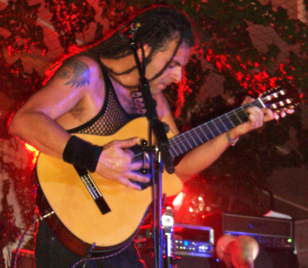 Danny Felice, guitarist from Breed 77